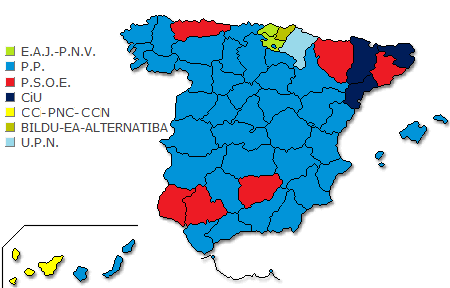 Most voted parties by provinces in the Spanish local elections 2011